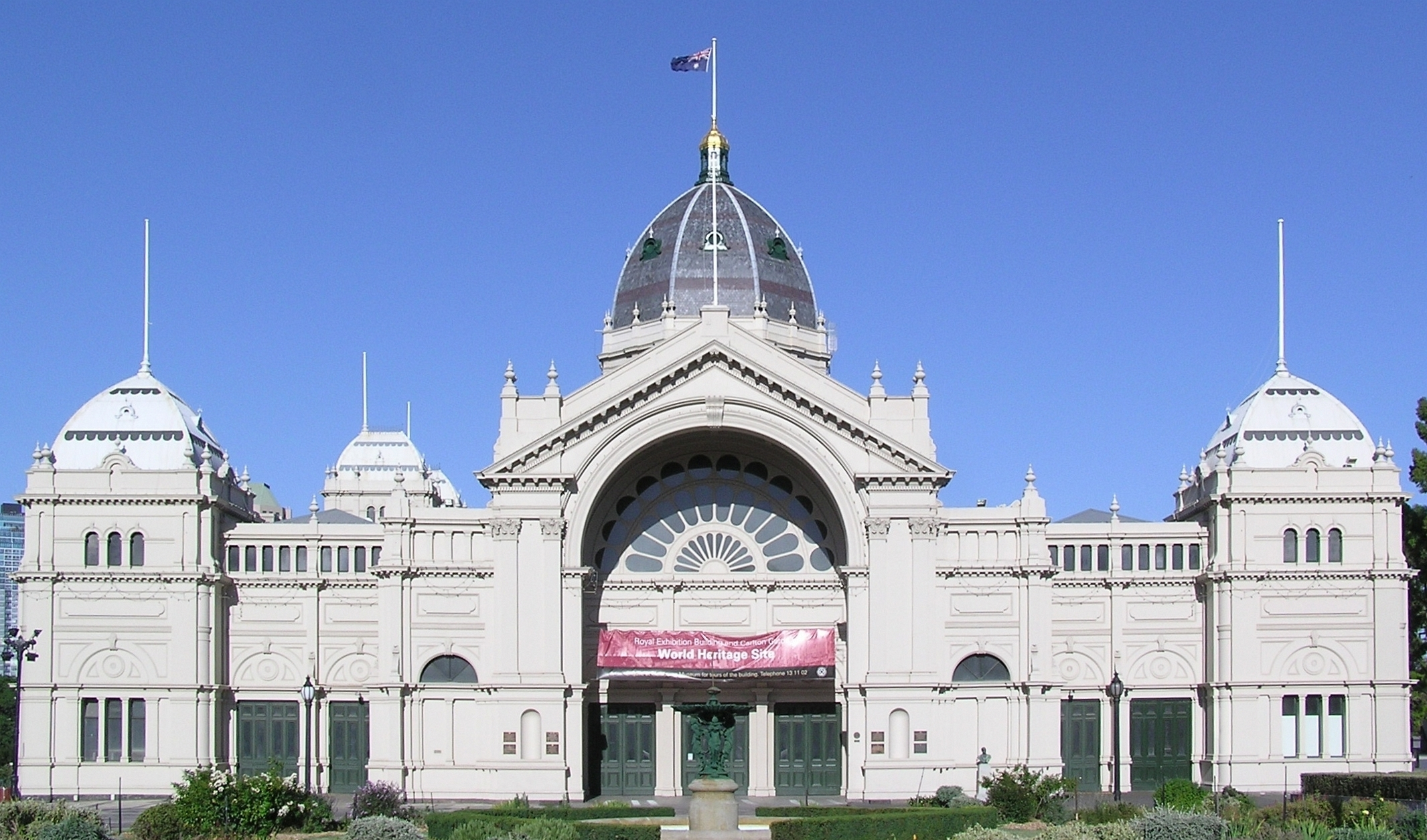 Melbourne Royal Exhibition - East Side